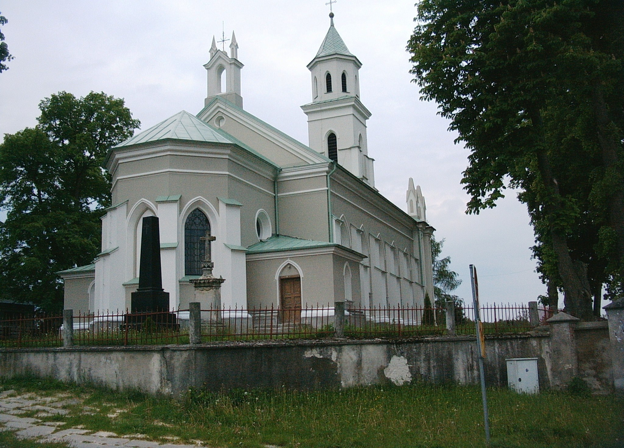 Mary Magdalene church in Promna